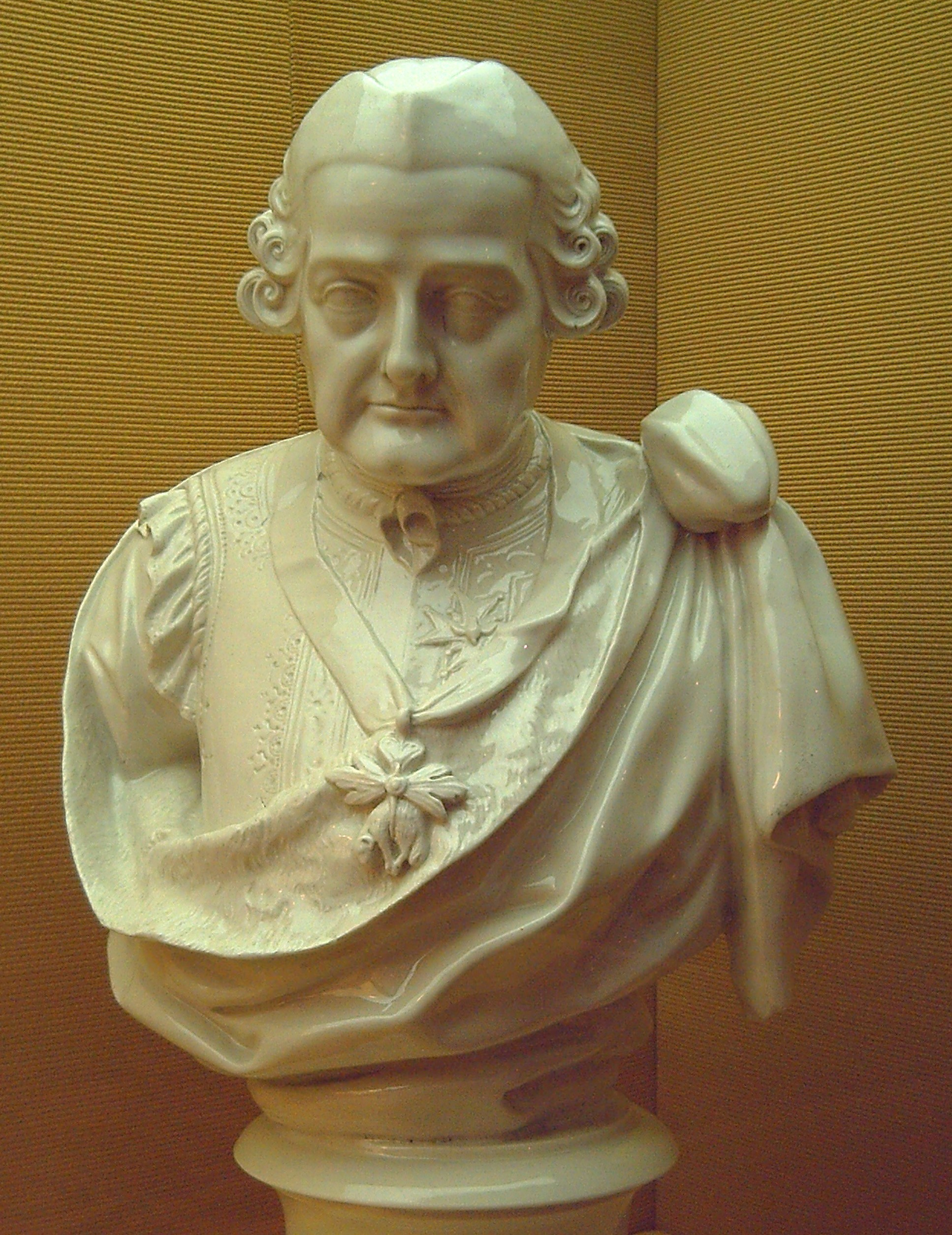 Depicted person: Pedro Pablo Abarca de Bolea, tenth Count of Aranda (1718–1798).